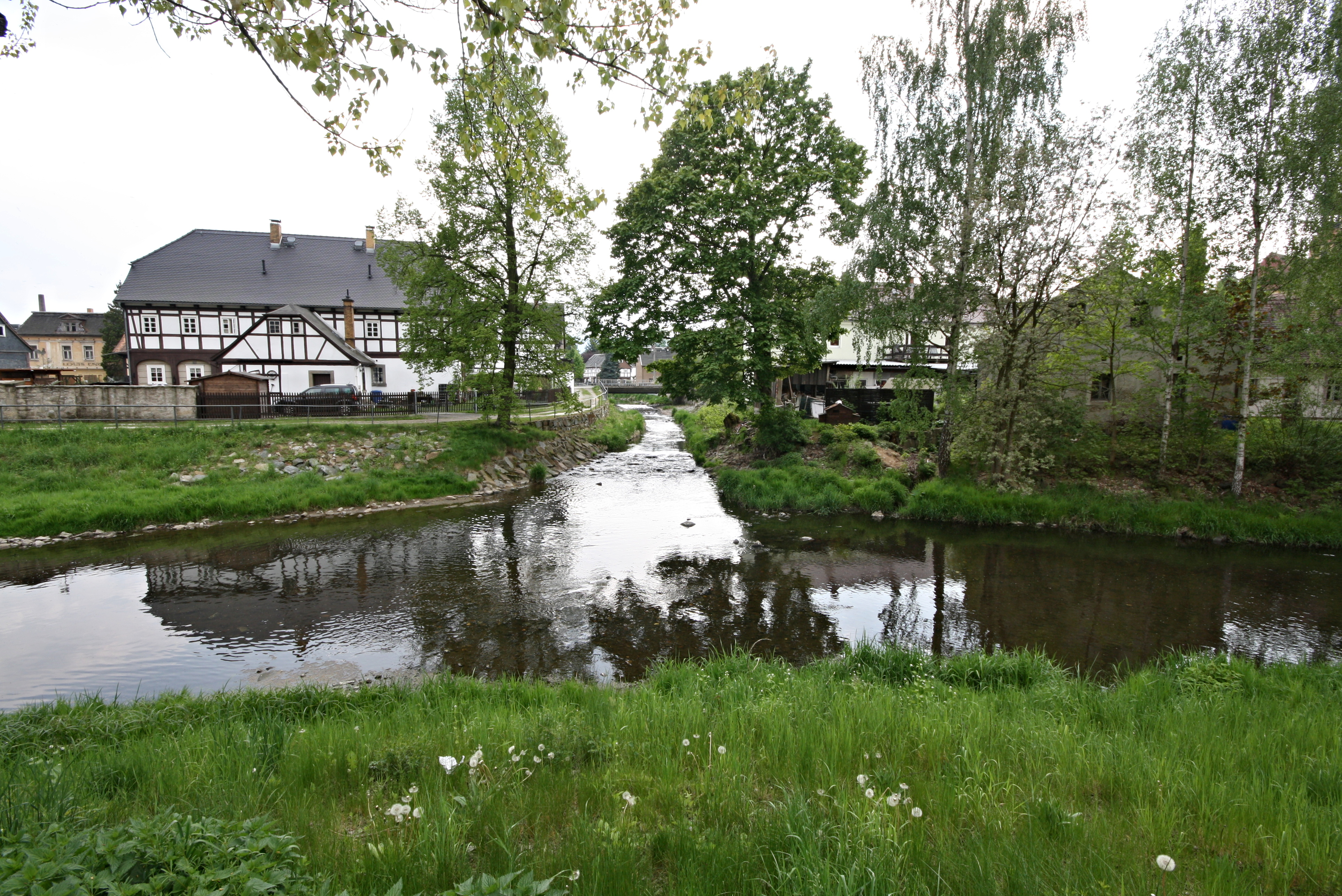 Großschönau (Sachsen), confluence of the Mandau River and the Lužnička (Lausur).